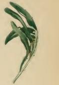 Stainton’s Natural History of the Tineina (1855–1873): Anacampsis scintillella a sprig of Helianthemum vulgare eaten by larva